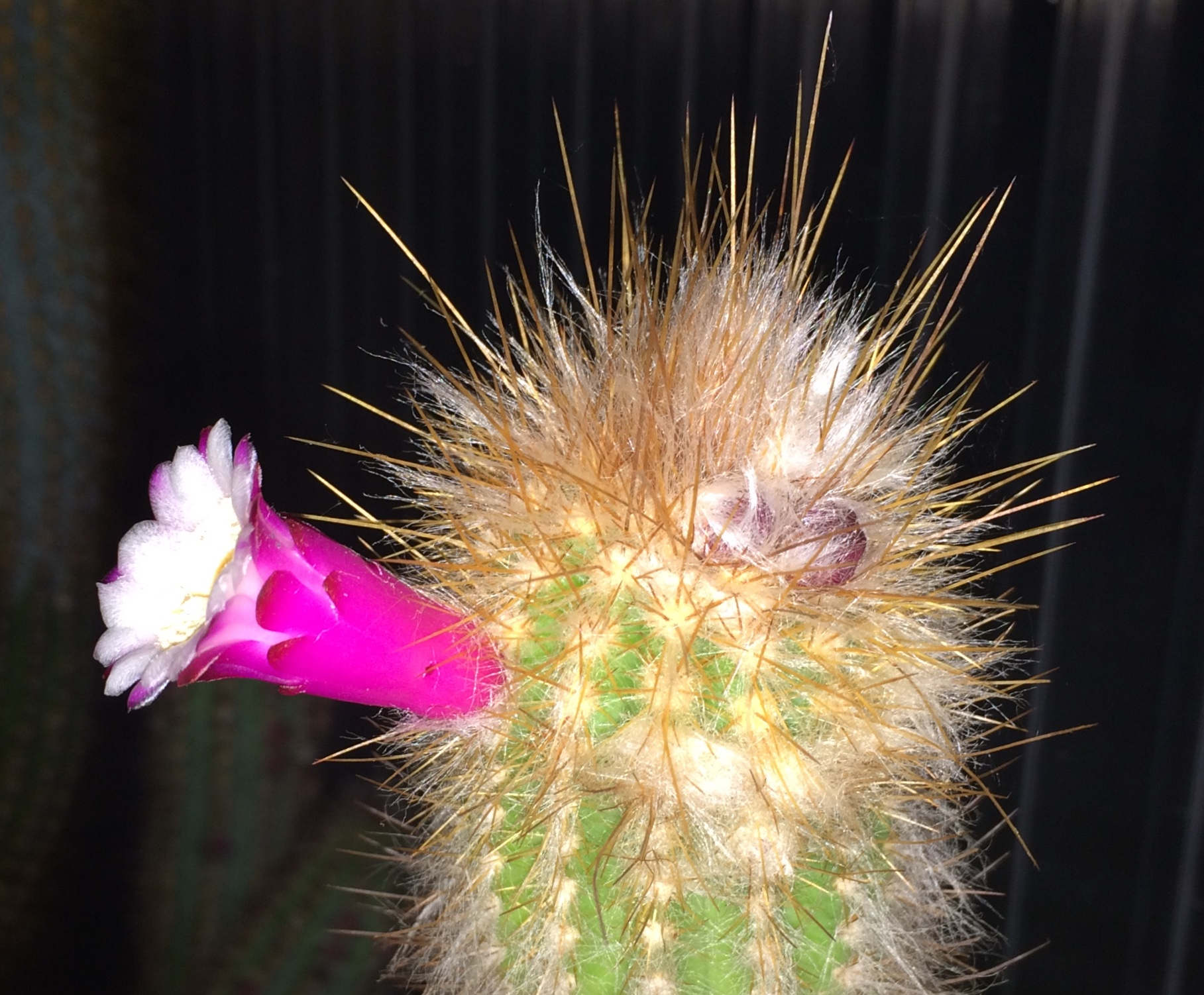 Plant of the holotype collection